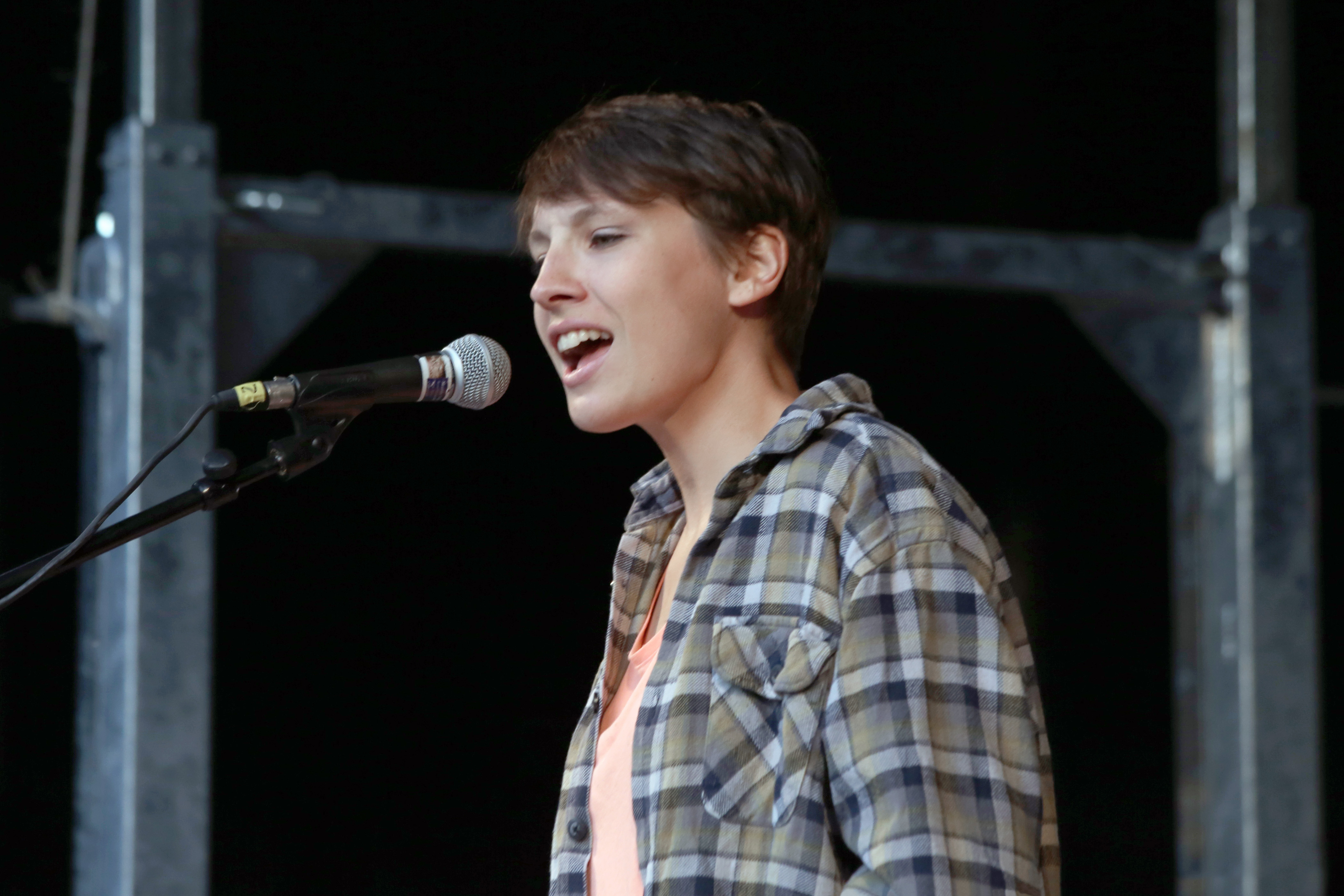 Yasmo feat. Giga Ritsch - concert at "Fest für den Rundfunk" at Karlsplatz in Vienna, Austria.